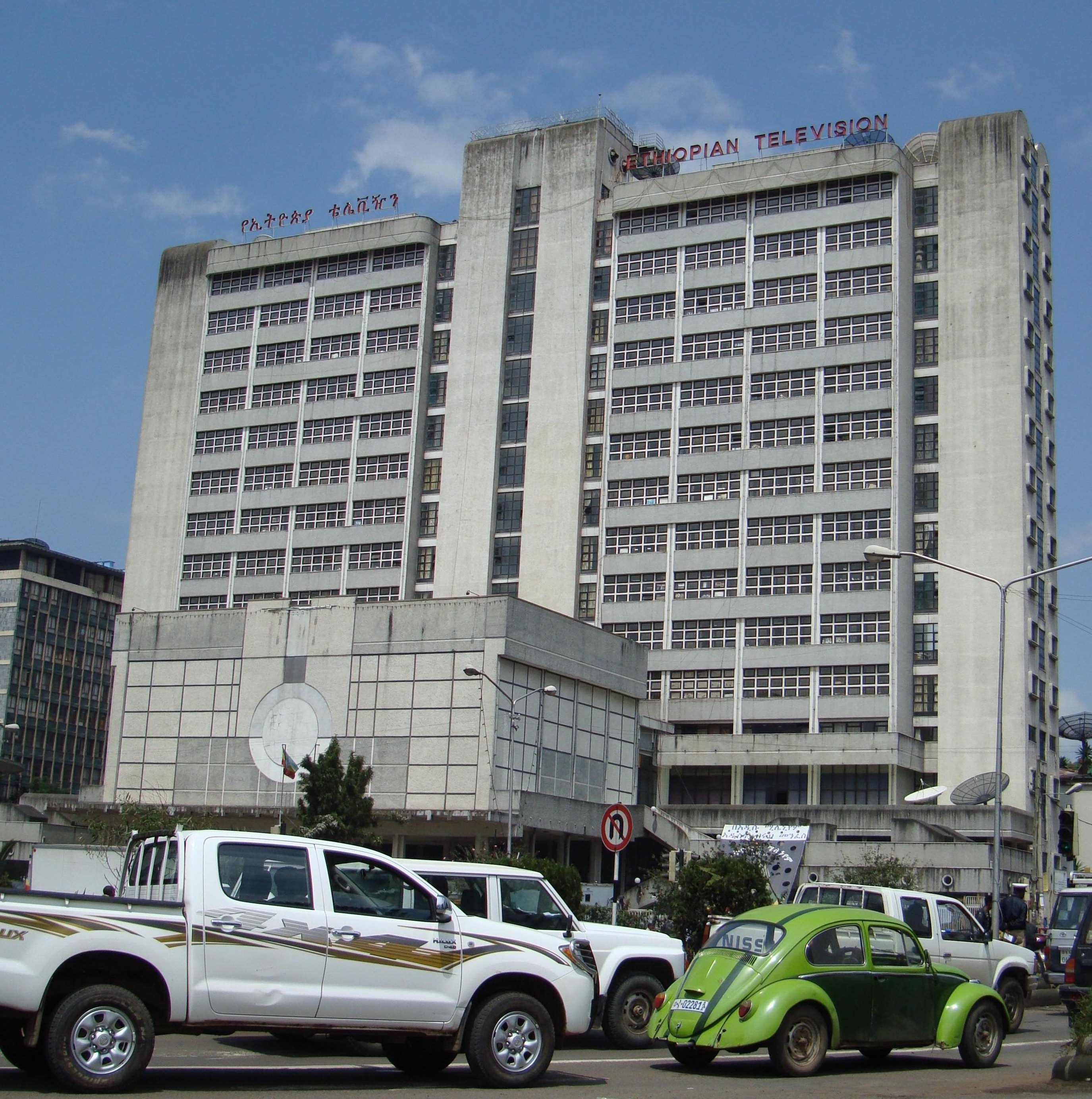 Ethiopian Radio and Television siege, Addis Abeba